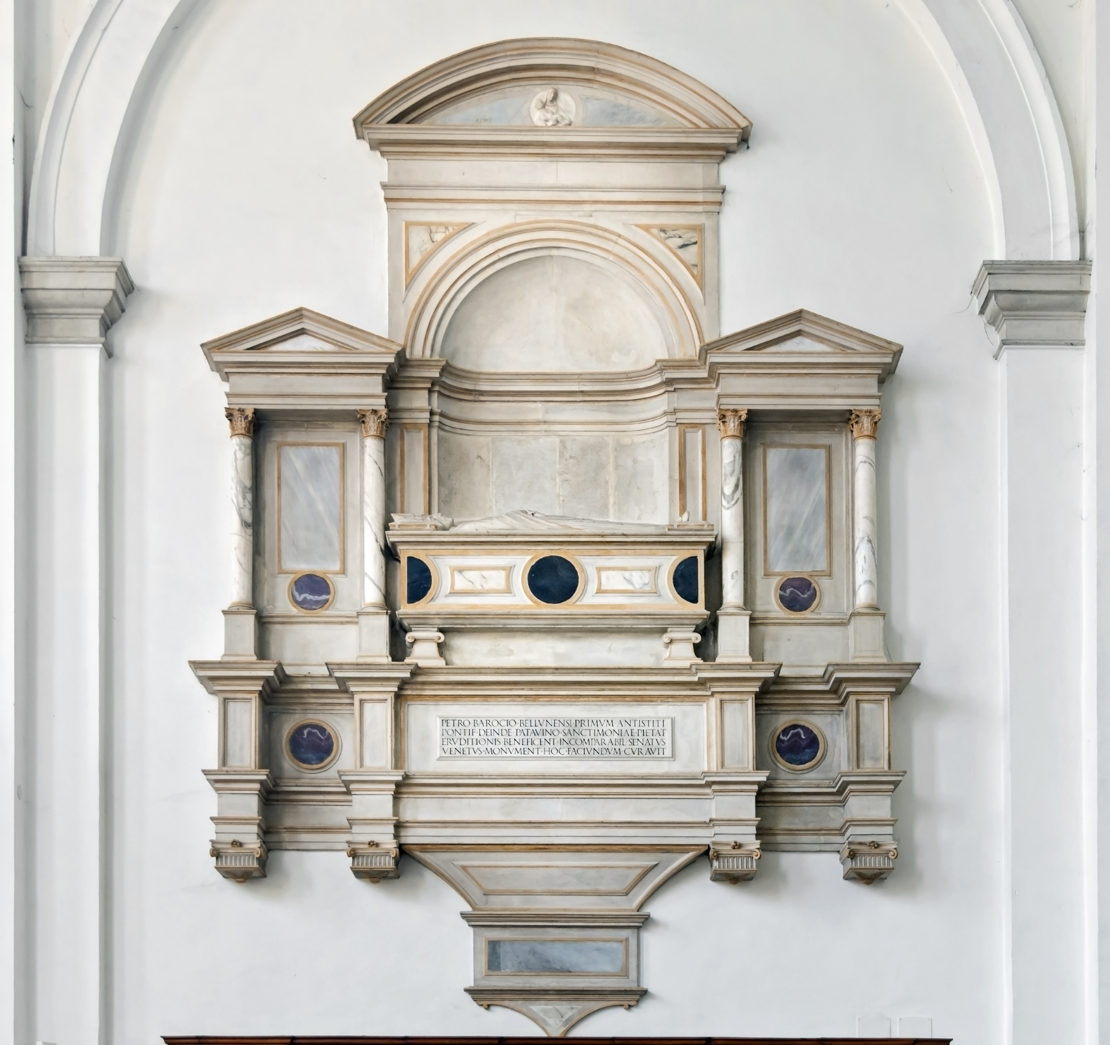 On the right wall, the funerary monument of Bishop Pietro Barozzi (1507), attributed to Alessandro Vittoria.